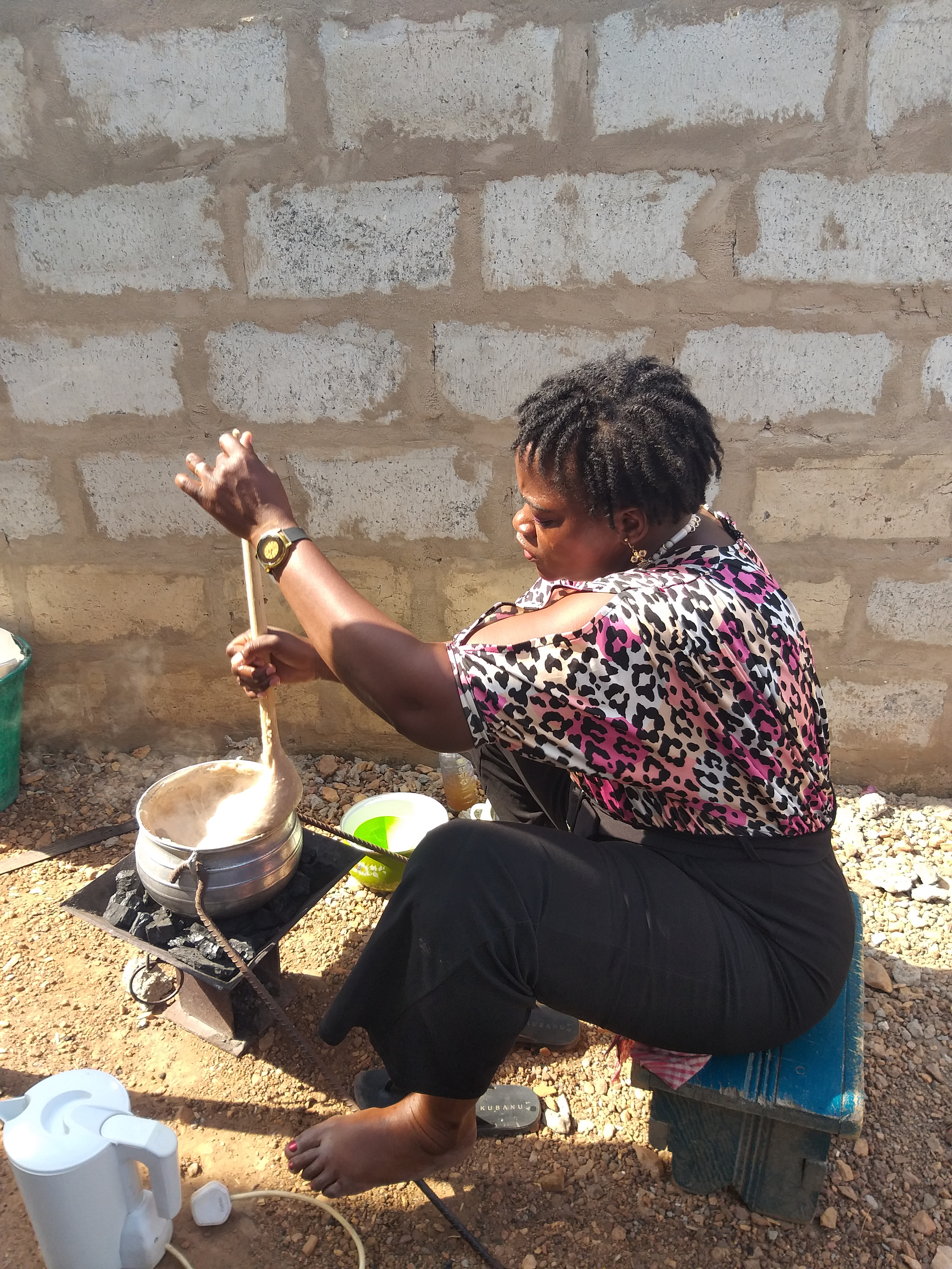 Tuo Zaafi is a meal made from milled maize. It mostly prepared in an iron pot with a wooden ladle to be used for stirring the flour. Tuo Zafi is food mostly eaten by people from the northern part of Ghana. This photo has been taken in the country: Ghana